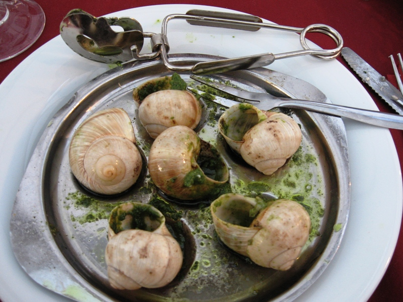 Plate of escargot with tongs and fork, taken in Bordeaux FRANCE